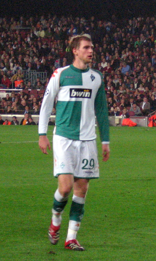 Per Mertesacker, SV Werder Bremen's player, during the match FC Barcelona-SV Werder Bremen.